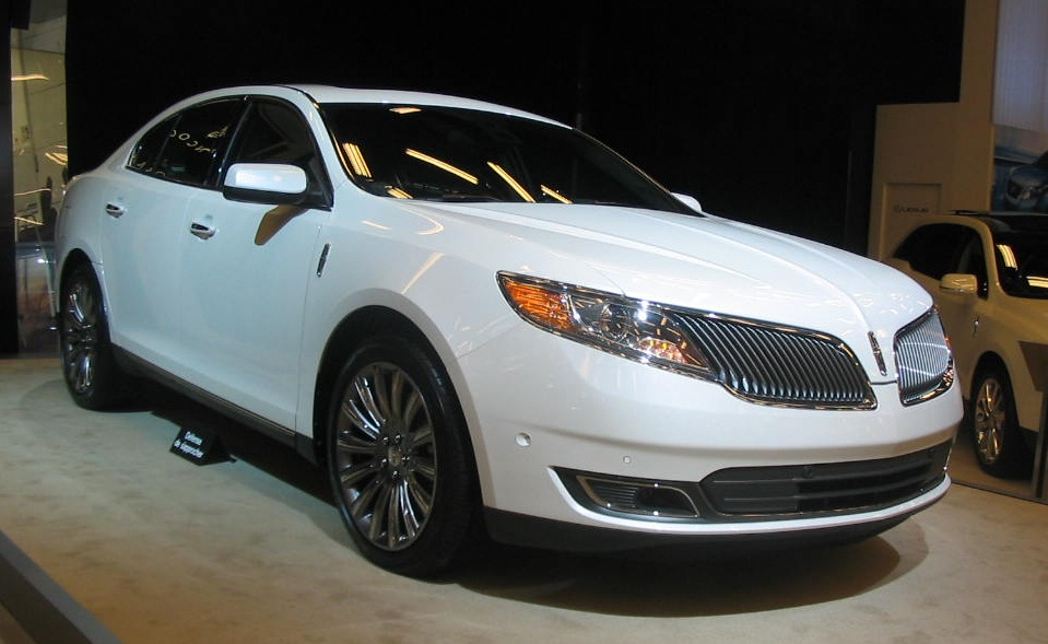 2013 Lincoln MKS photographed in Montreal, Quebec, Canada at the 2012 Montreal International Auto Show.